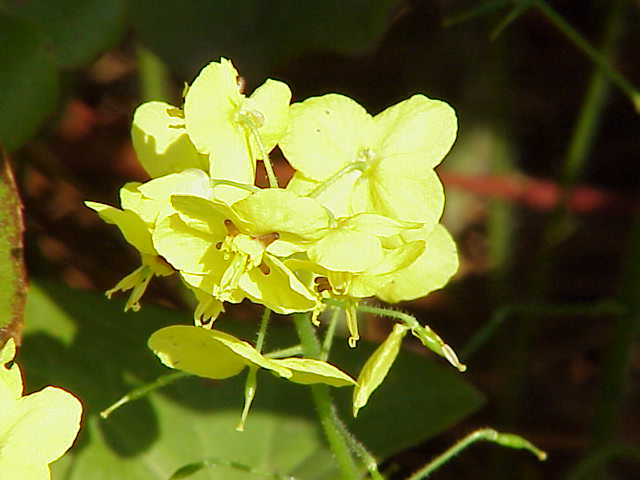 Species: Epimedium pinnatum Family: Berberidaceae Image No. 2